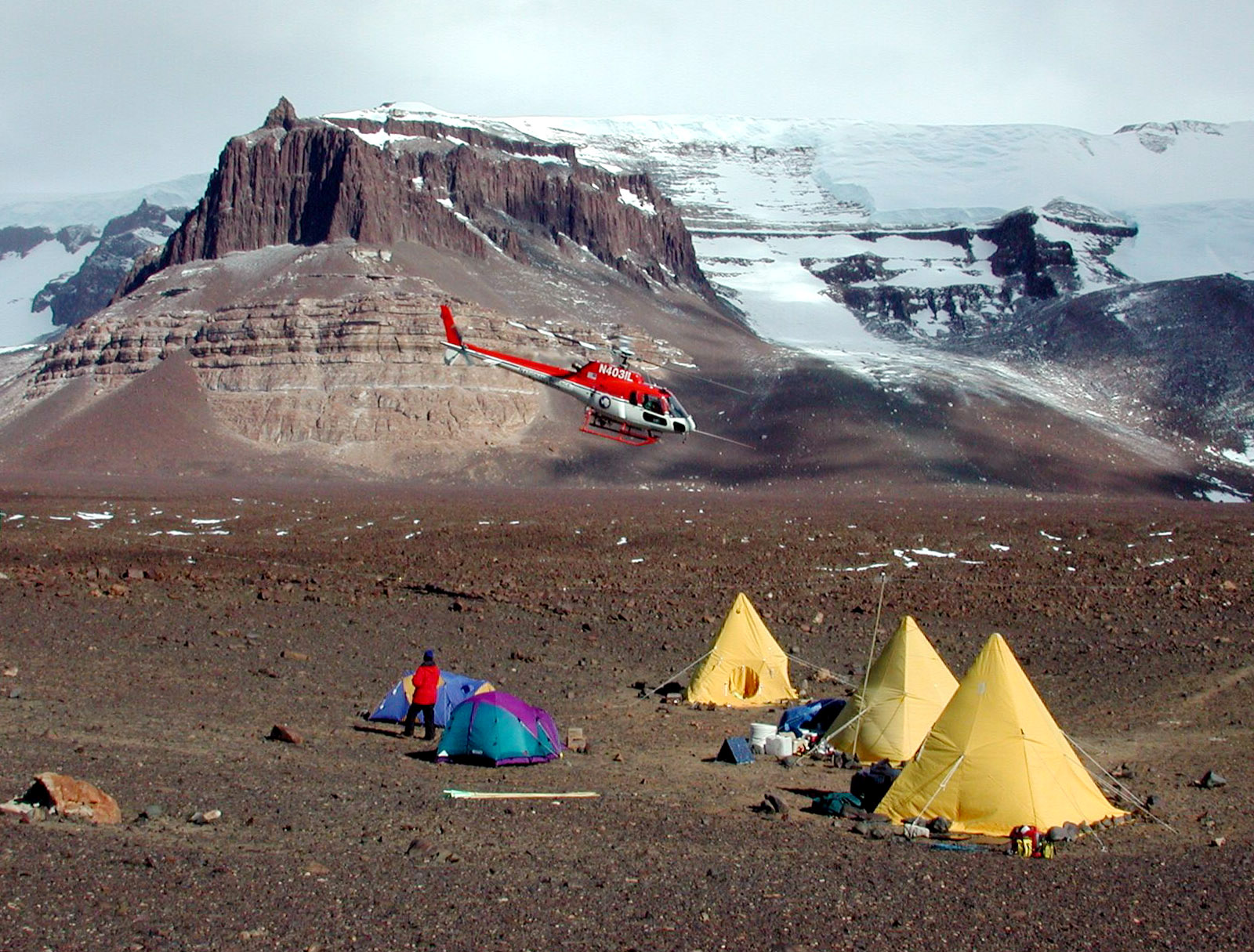 A helicopter prepares to land at Beacon Valley in the Dry Valleys of southern Victoria Land. One research group of scientists focuses on the landscape features and soils of Antarctica's Dry Valley region to provide a more complete understanding of past global climatic and environmental conditions.